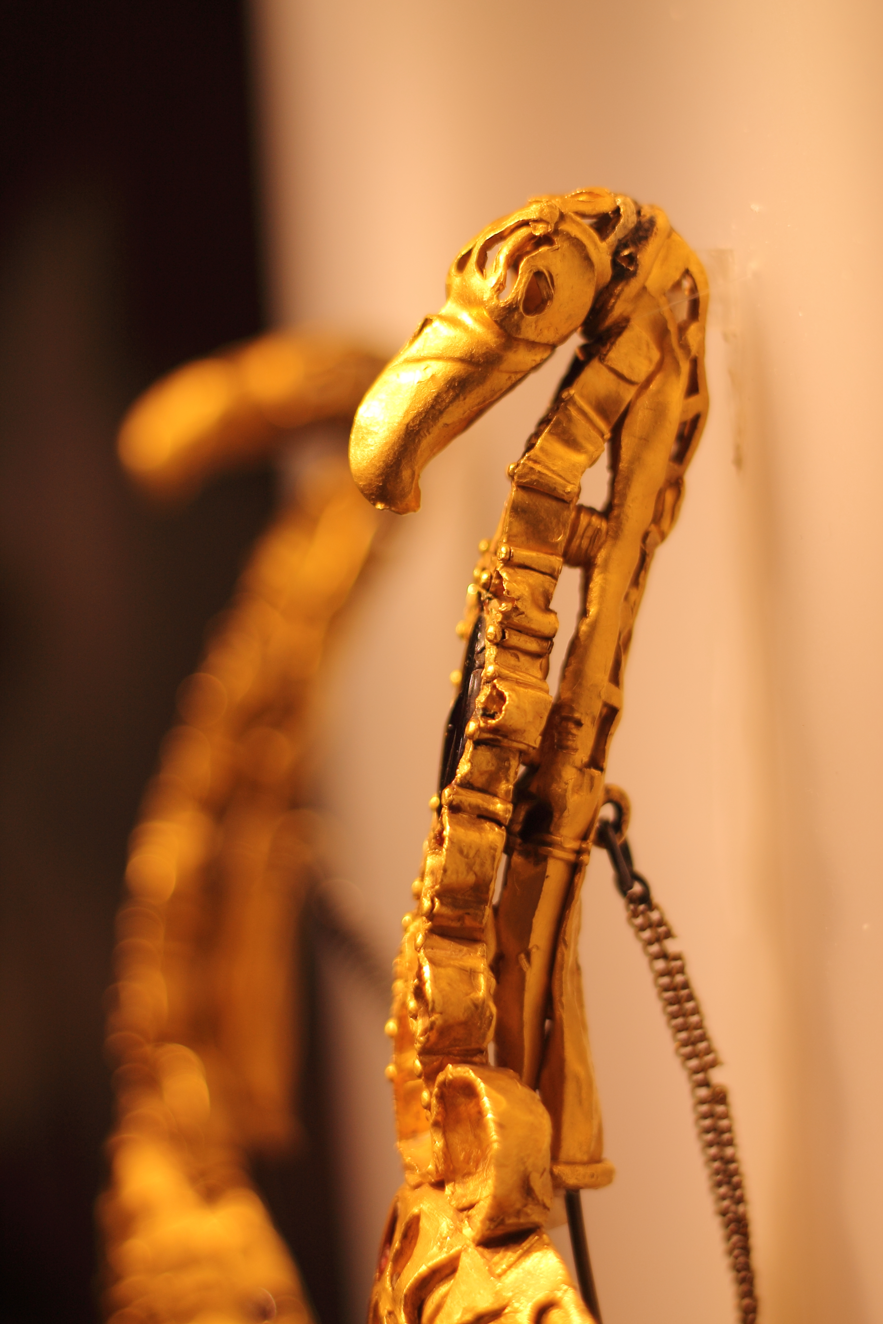 Pietroasele treasure